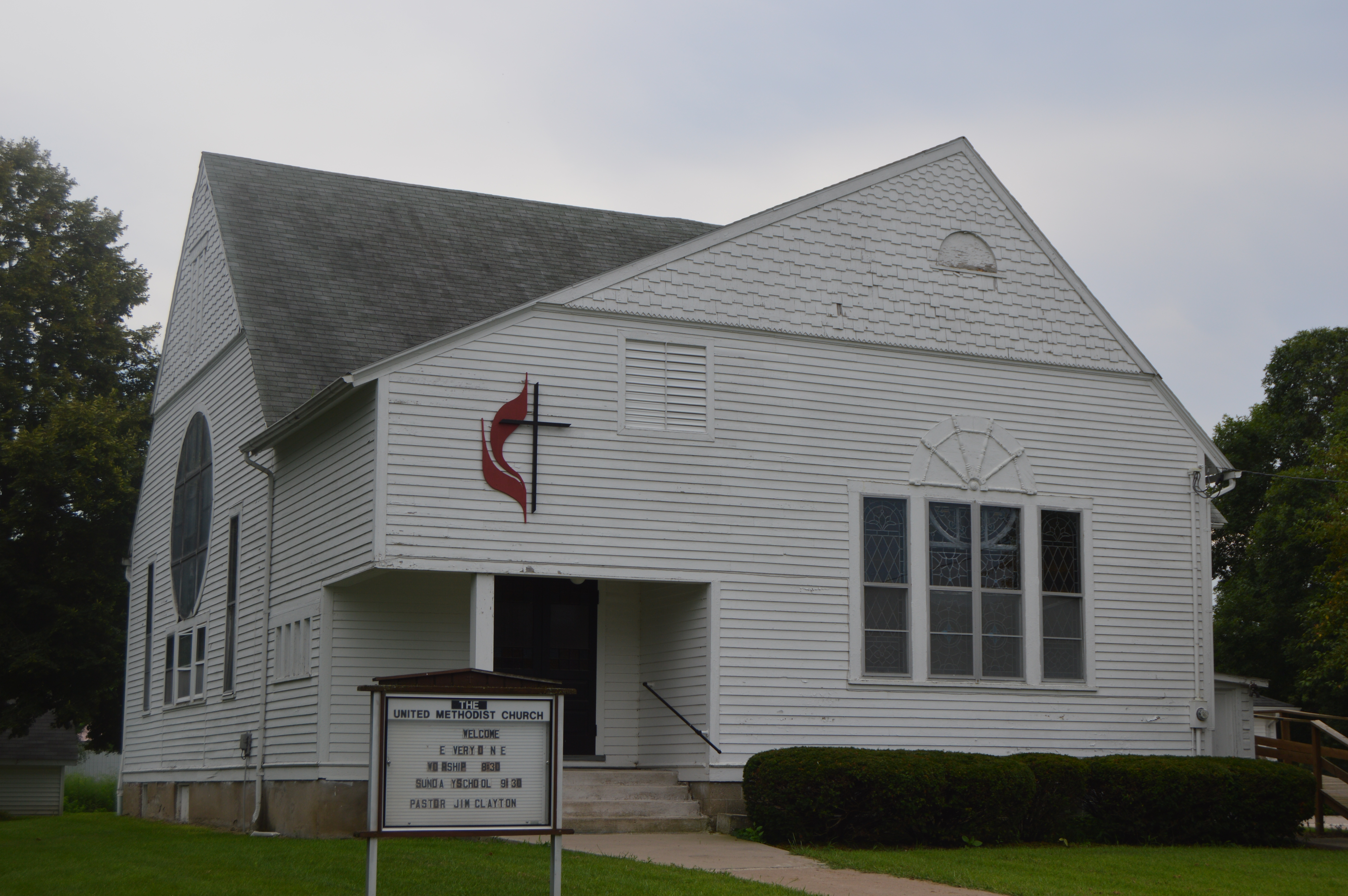 Front of the Terre Haute United Methodist Church in Terre Haute, Illinois, United States.